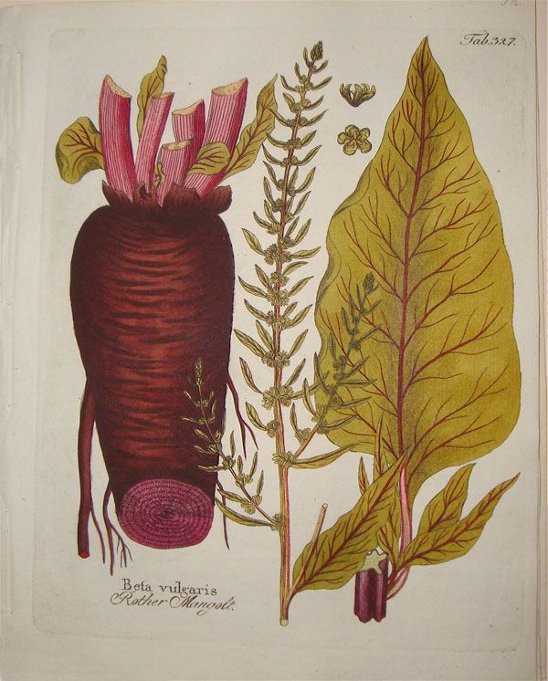 Beta vulgaris from Icones Plantarum Medico-Oeconomico-Technologicarum (1800-1822)